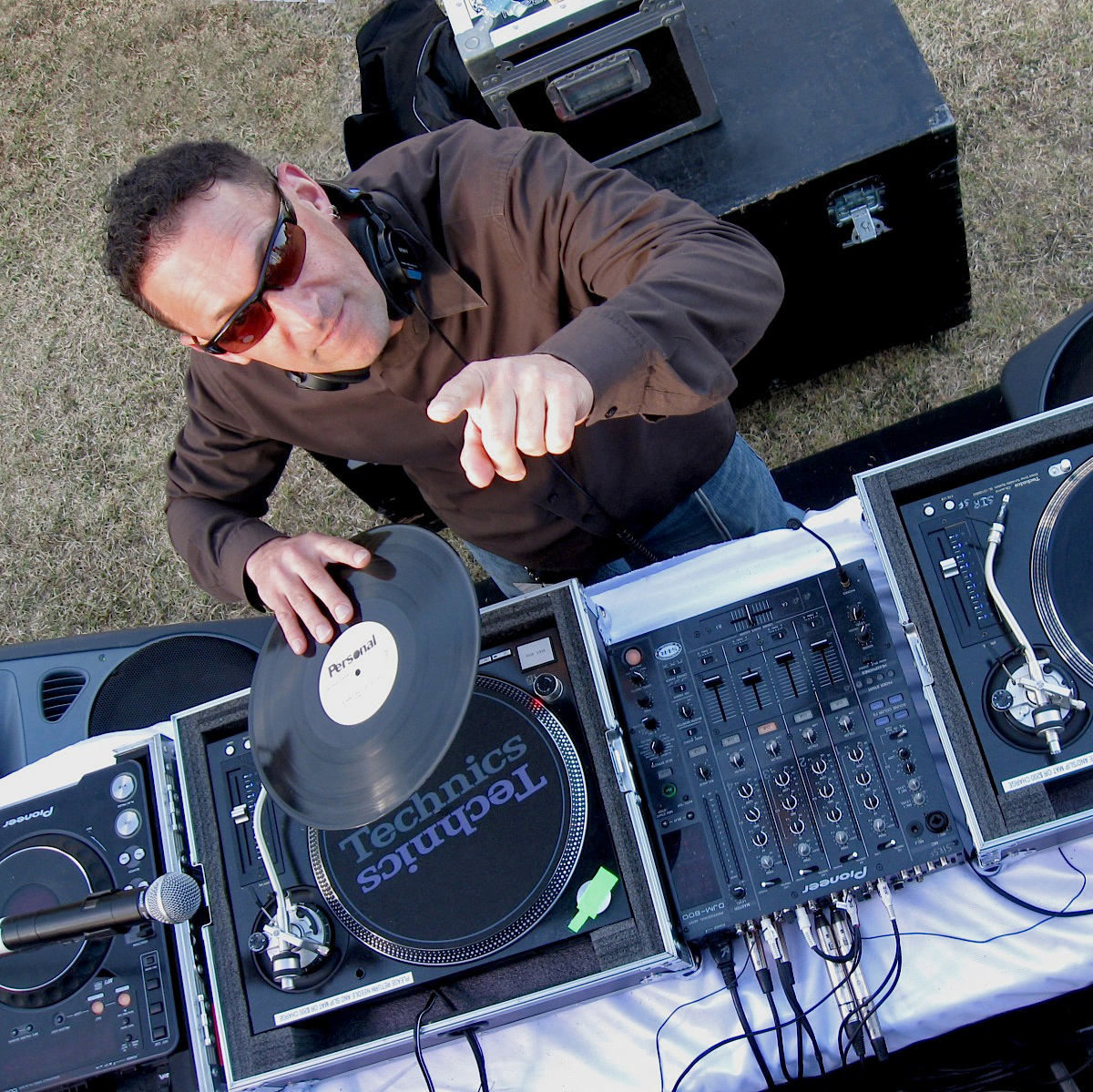 Steve Masters DJing at Treasure Island (SF Bay Area)